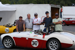 The 347 wins again at Lime Rock Historic Pictures here are Team Black Flag Racing